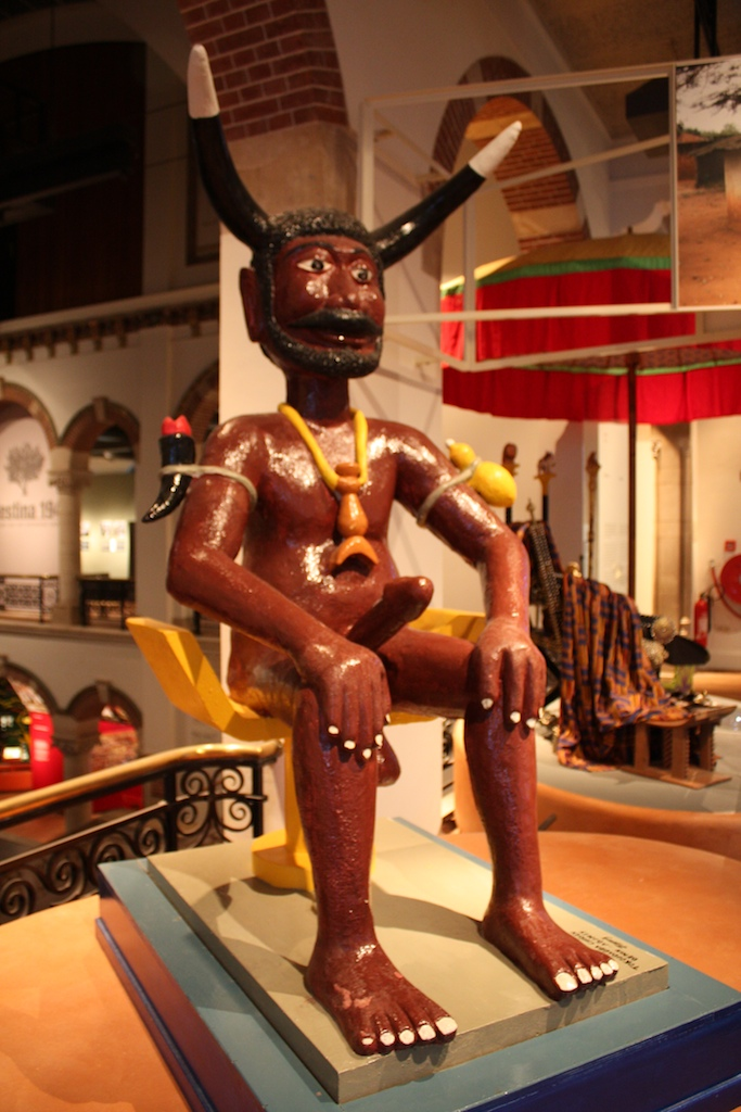 Statue of the god Legba, South Benin